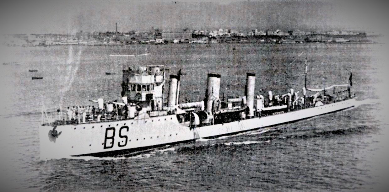 The destroyer Angelo Bassanini in navigation.